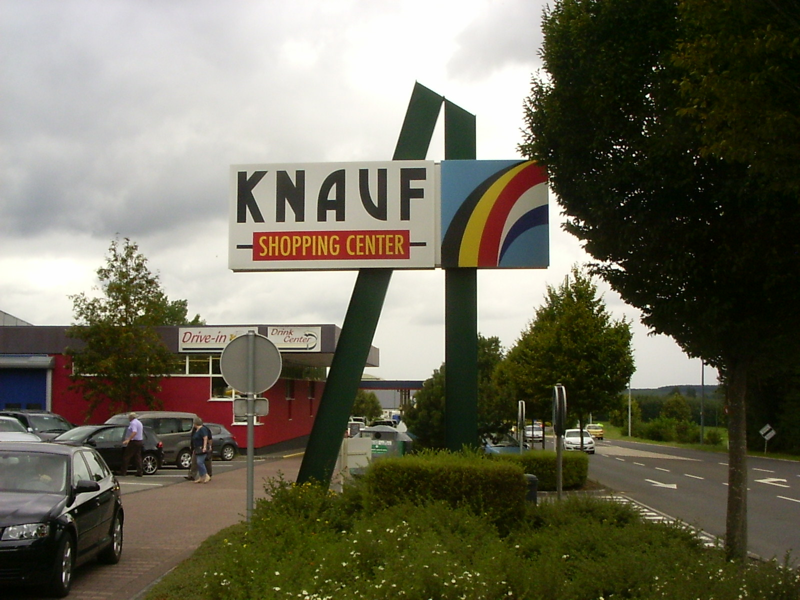 Knauf shopping center, Huldange, sign on the N7